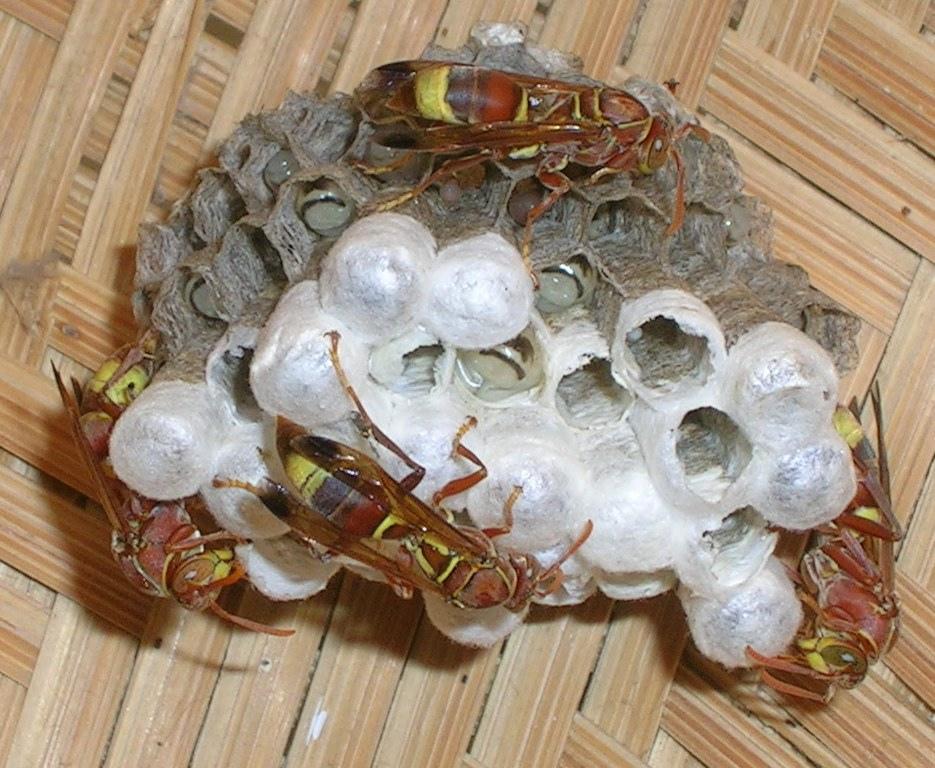 Wasps, Polistes stigma most likely, per Doug Yanega and Christophe B.(?) on talk page. Bangalore Photograph by L. Shyamal, 2006